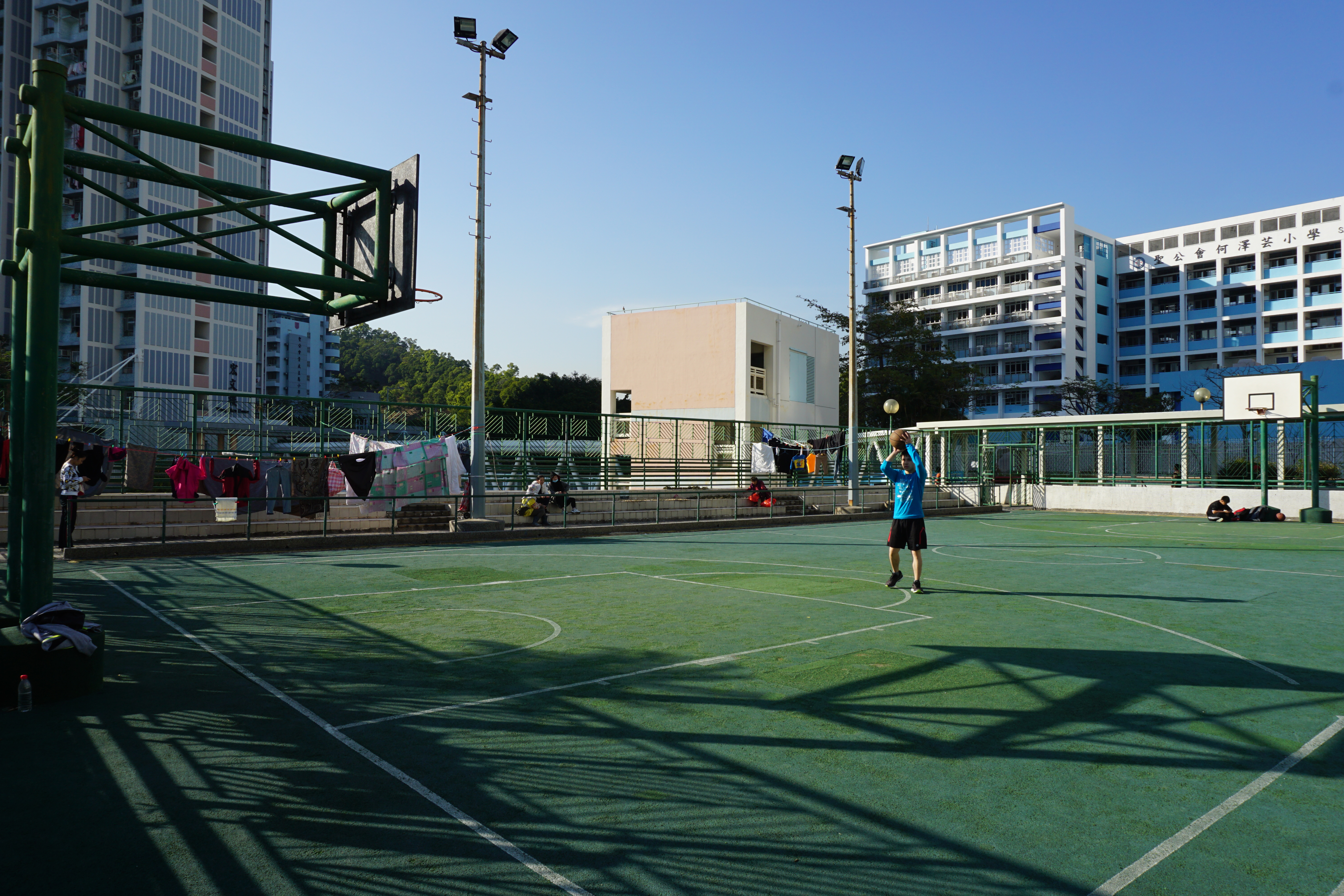 Cheung Hang Estate in Tsing Yi, Hong Kong.